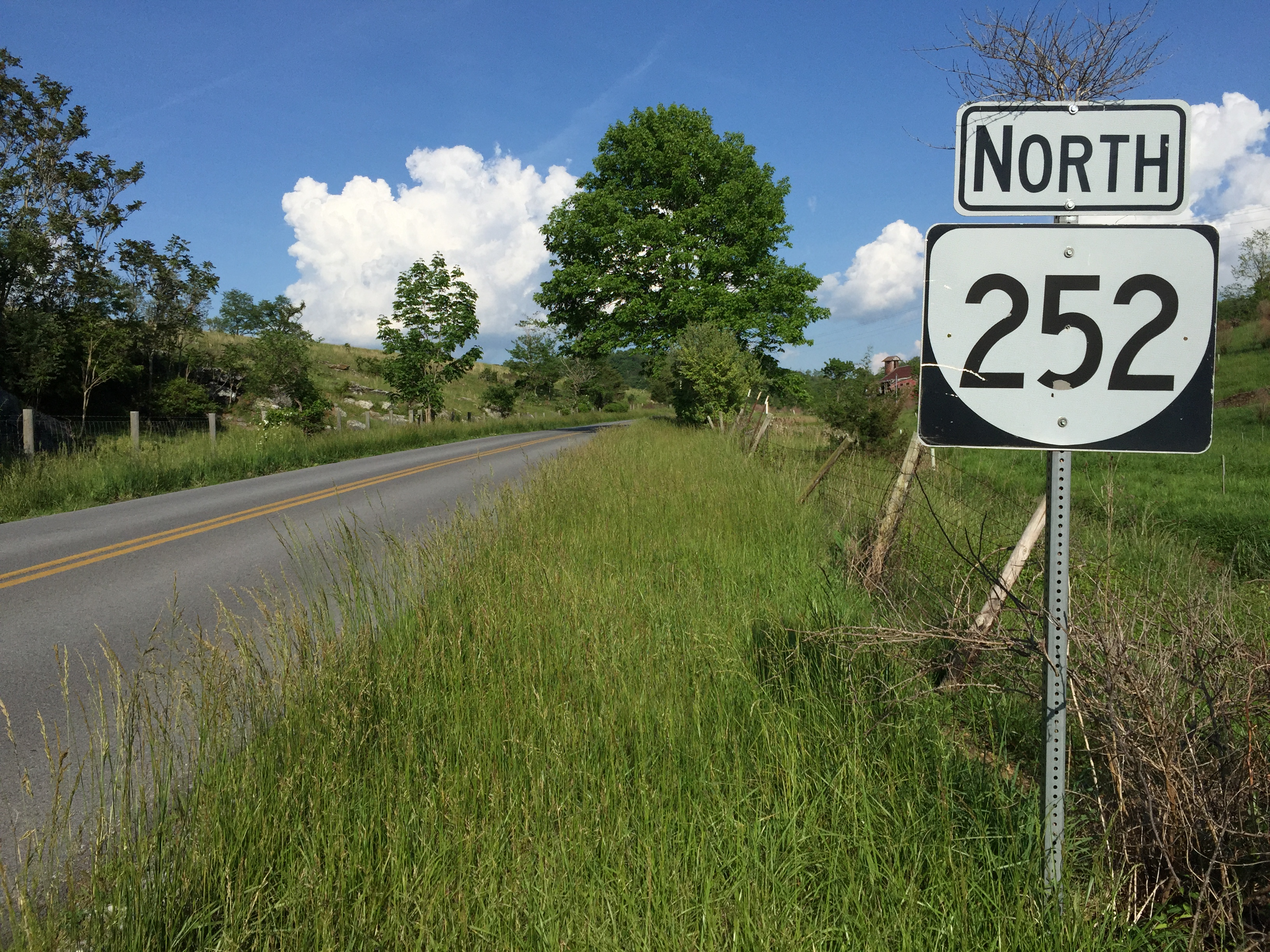 View north along Virginia State Route 252 (Middlebrook Road) near Virginia State Secondary Route 682 (McKinley Road) in Newport, Augusta County, Virginia